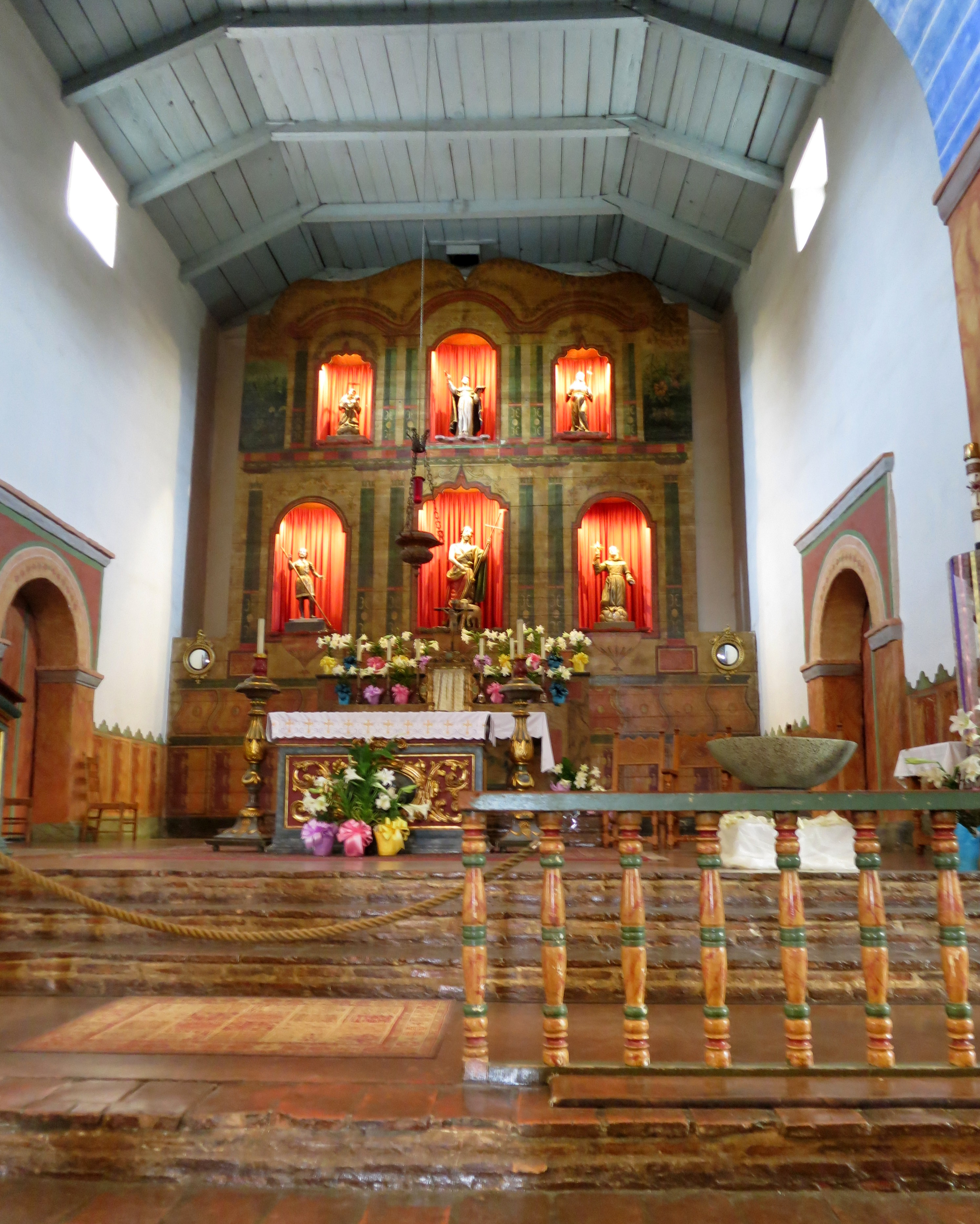 Mission San Juan Bautista (SJB, CA) - church interior, sanctuary decorated for Easter